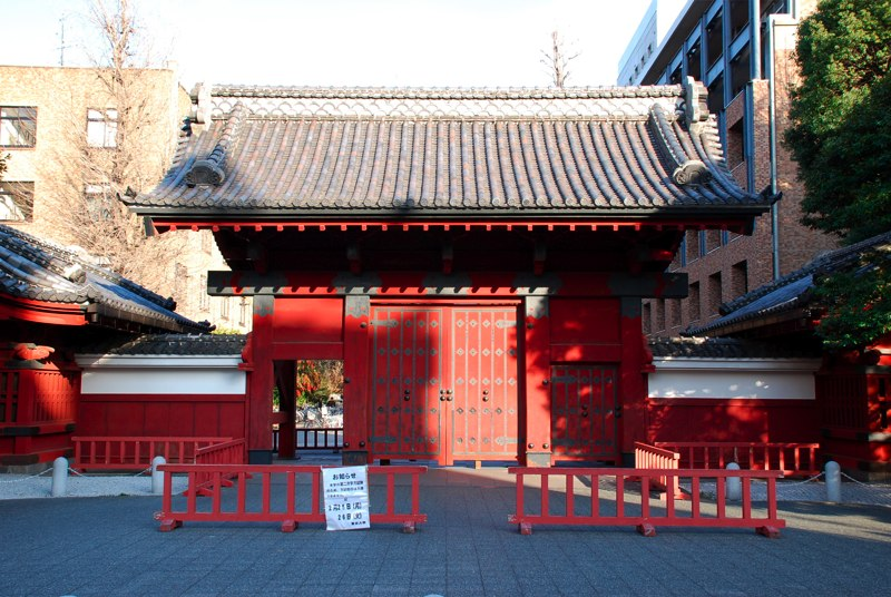 Akamon, the red gate at Tokyo University